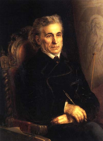 Goravsky, Apollinary (1833-1900) Portrait of Fedelio Bruni